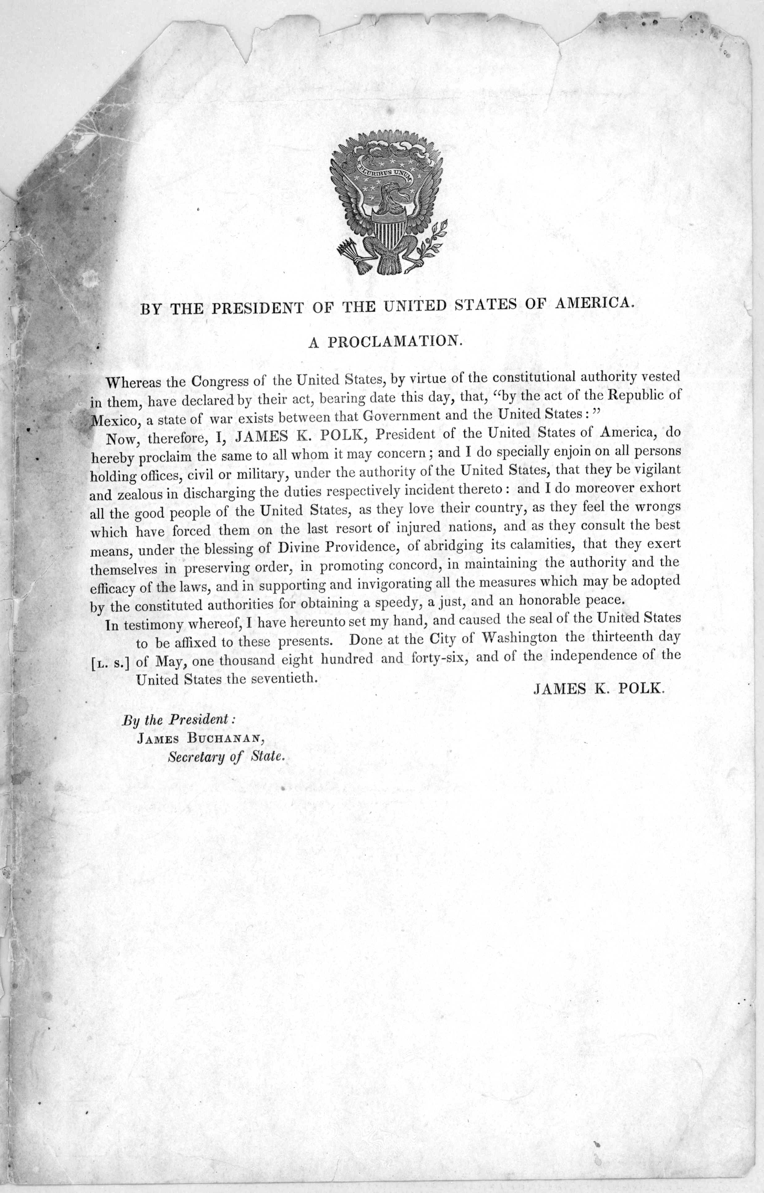 A proclamation by President Polk at the outset of the Mexican-American War.